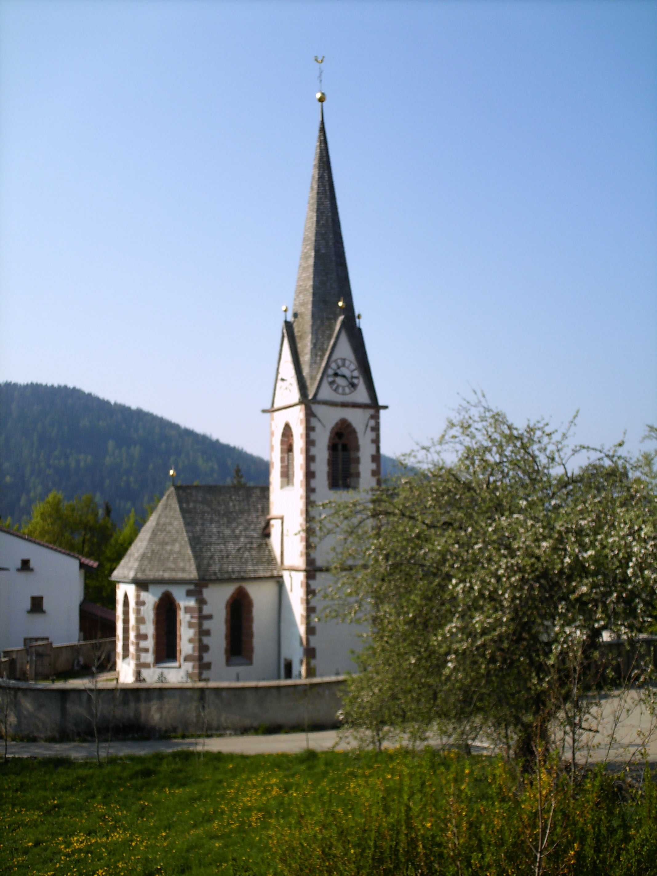 Hafling (BZ, Italy), St. John church